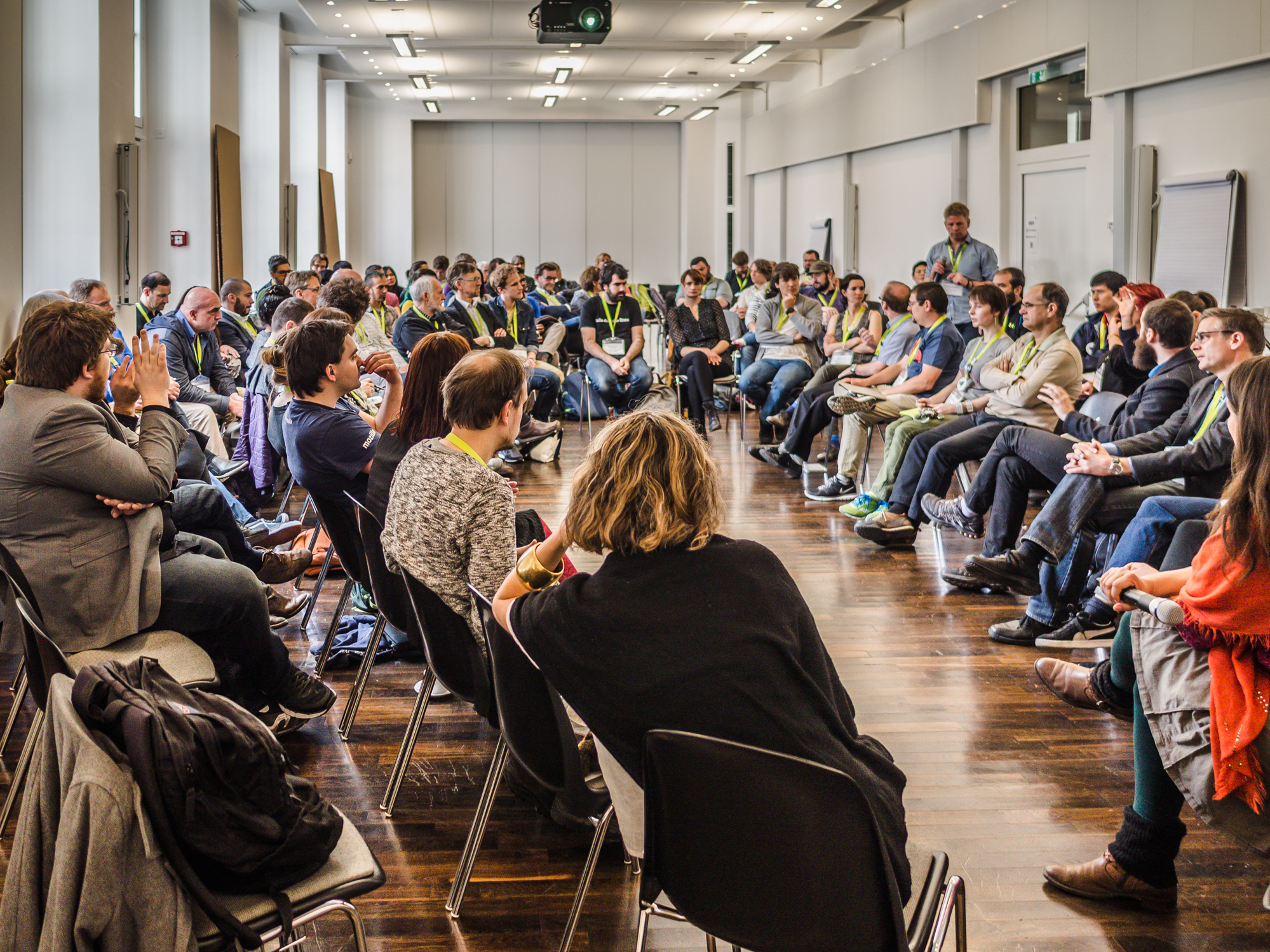 Wikimedia Conference 2016, Saturday